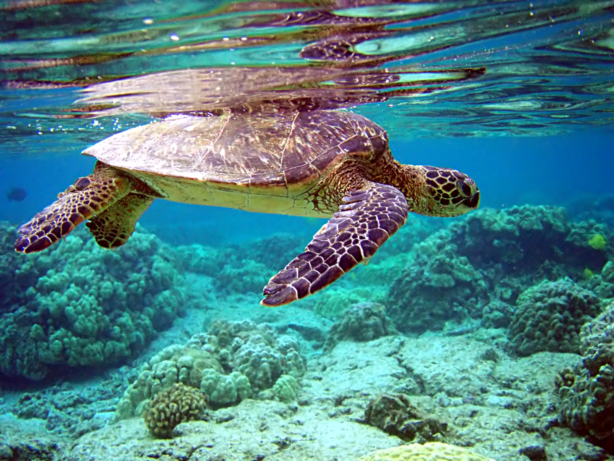 Green sea turtle, Chelonia mydas and his total internal reflection.